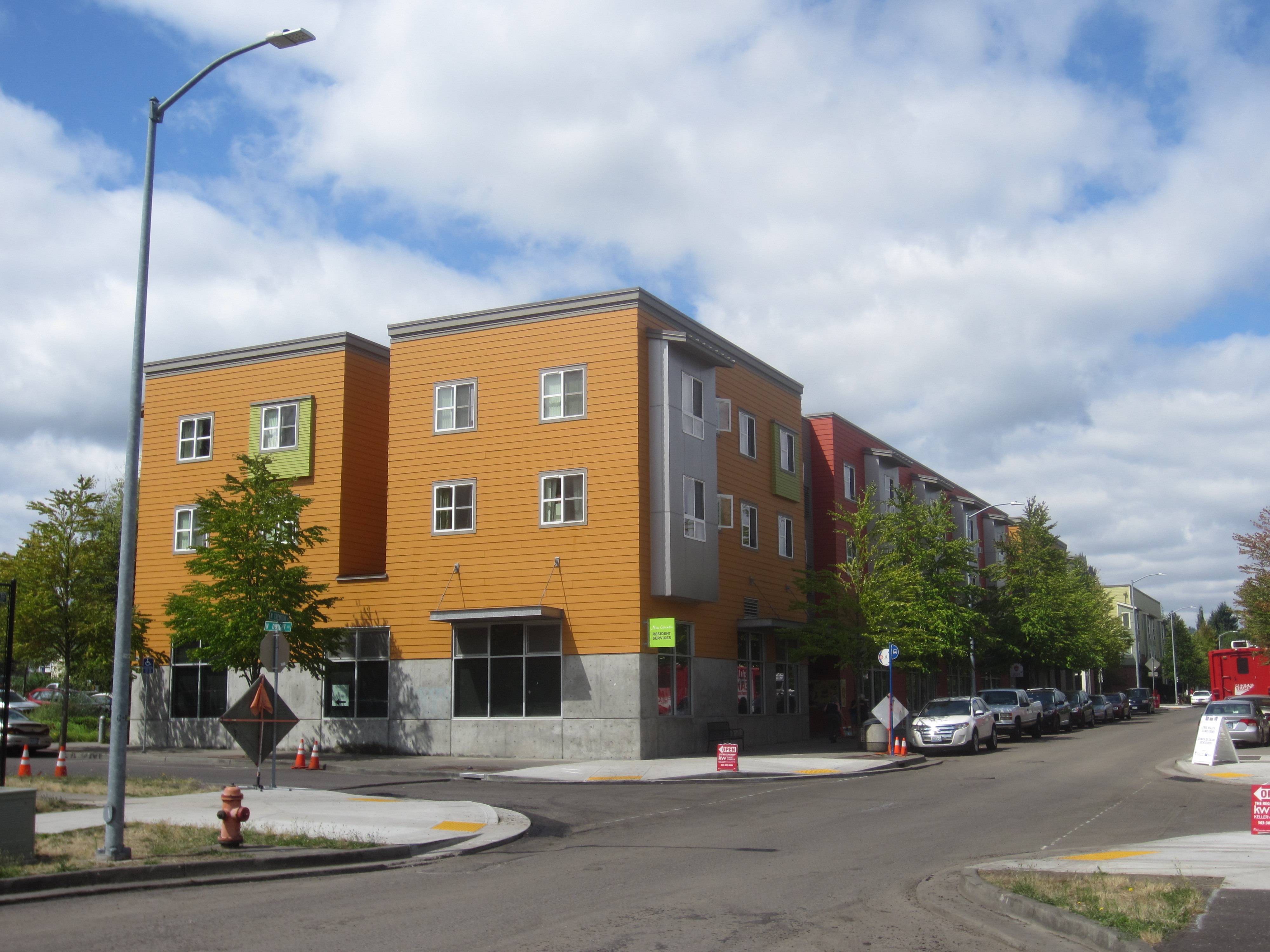 Buildings in New Columbia—a housing development in Portland, Oregon, United States—at the intersection of North Trenton Street and North Dwight Avenue.